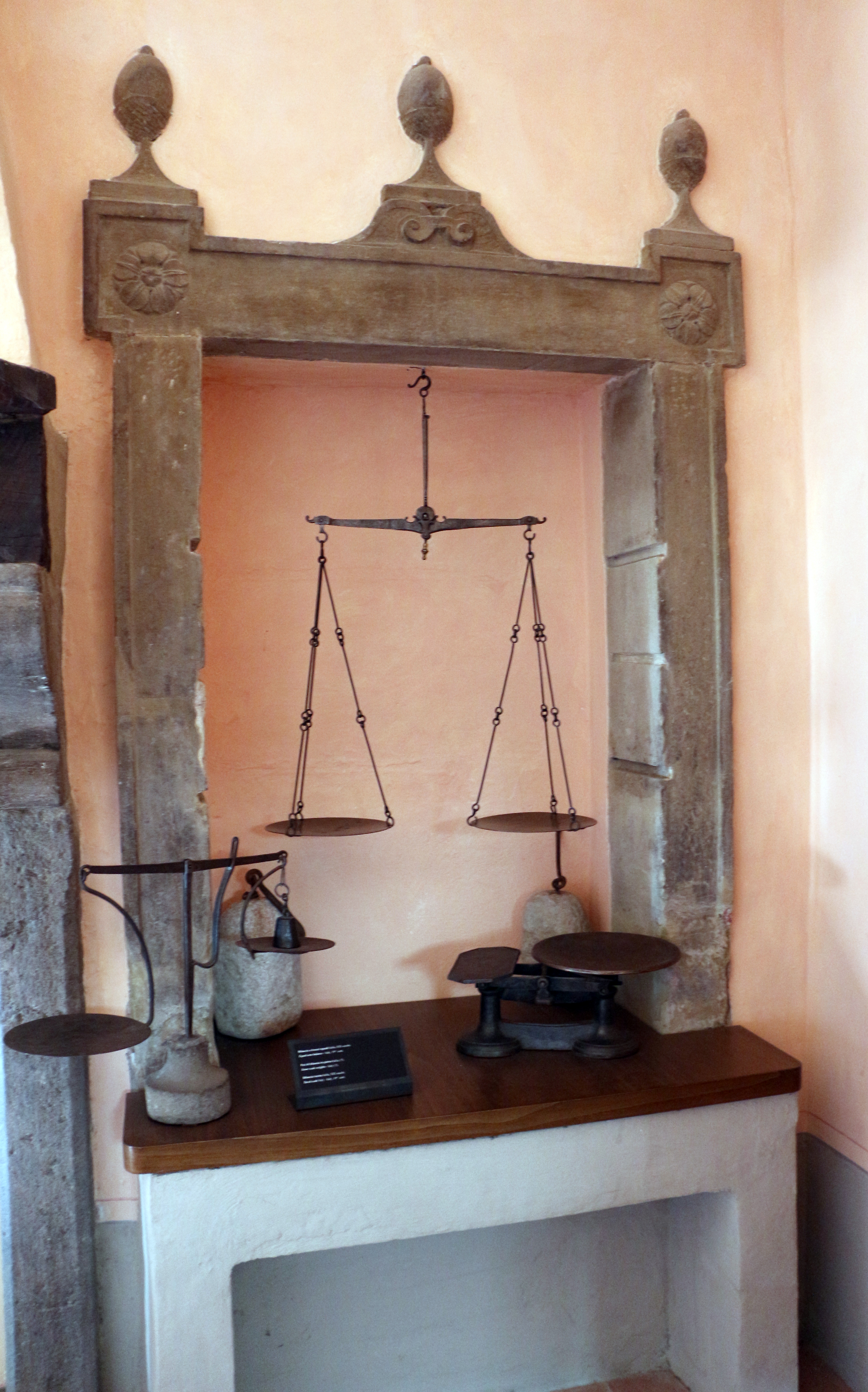 Museo delle Bilance (Monterchi)